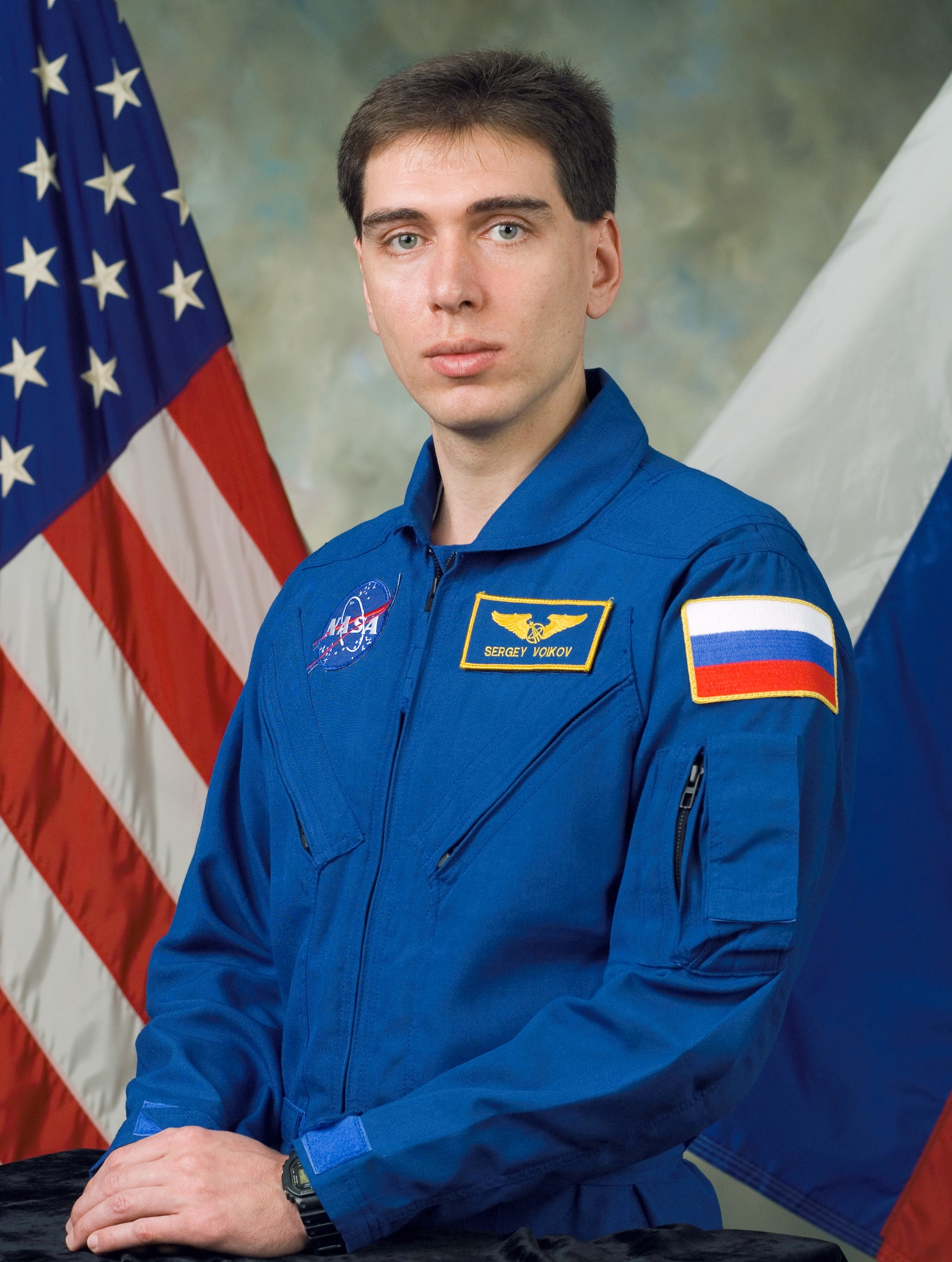 Cosmonaut Sergei A. Volkov, Expedition 17 commander representing Russia's Federal Space Agency.